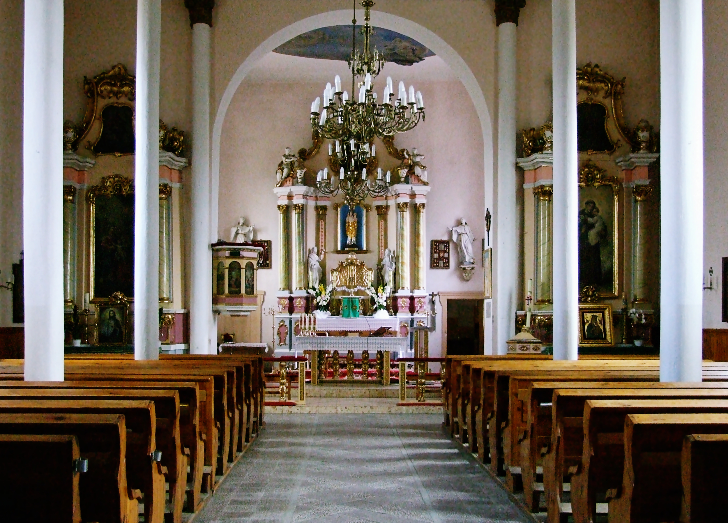 Iłówiec, parish church (st. Andrea's)